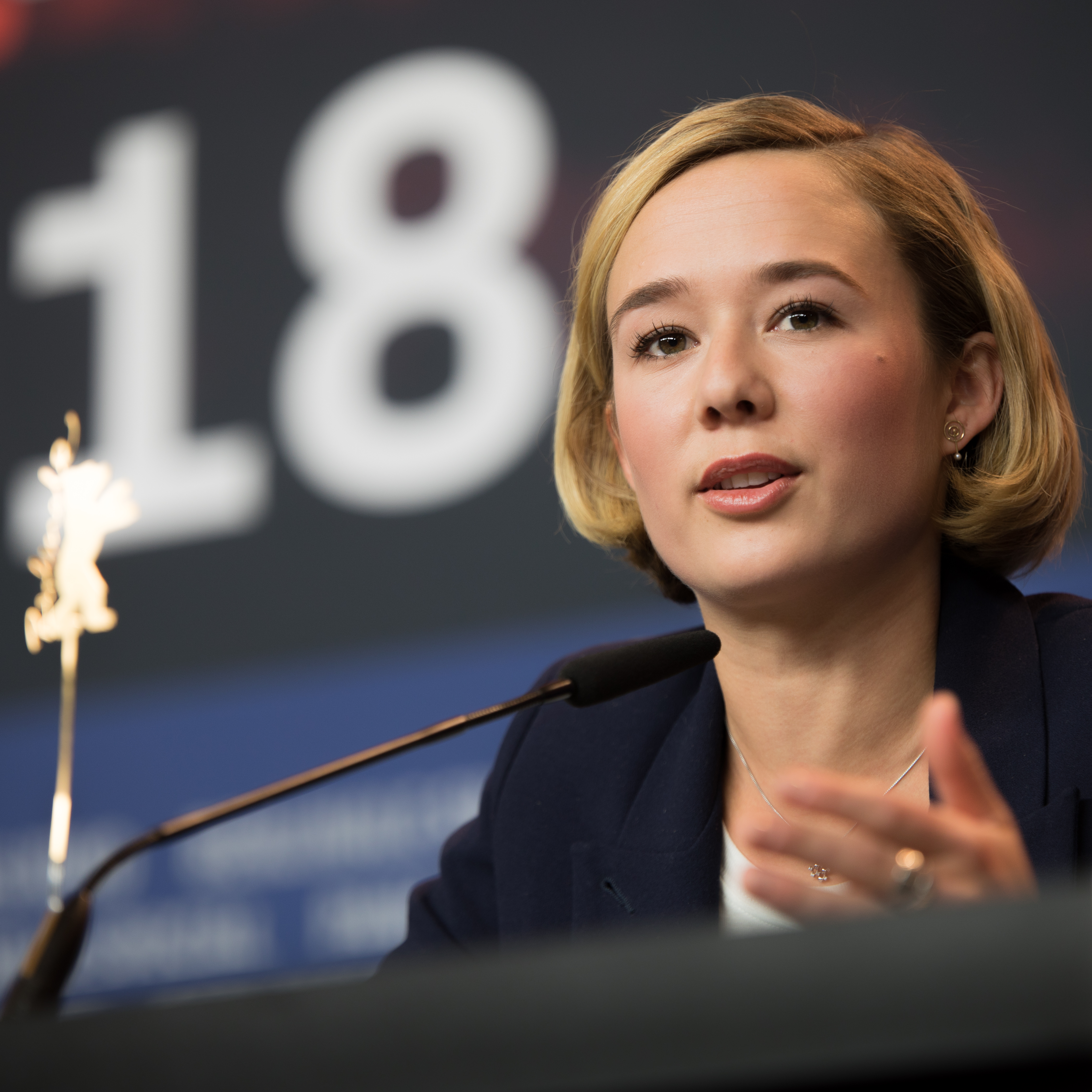 The Danish-Swedish actress Alba August at the press conference for the movie "Becoming Astrid", Berlinale 2018